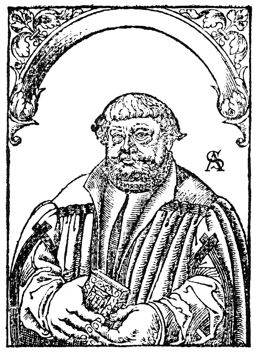 Anton Corvinus 1501-1553